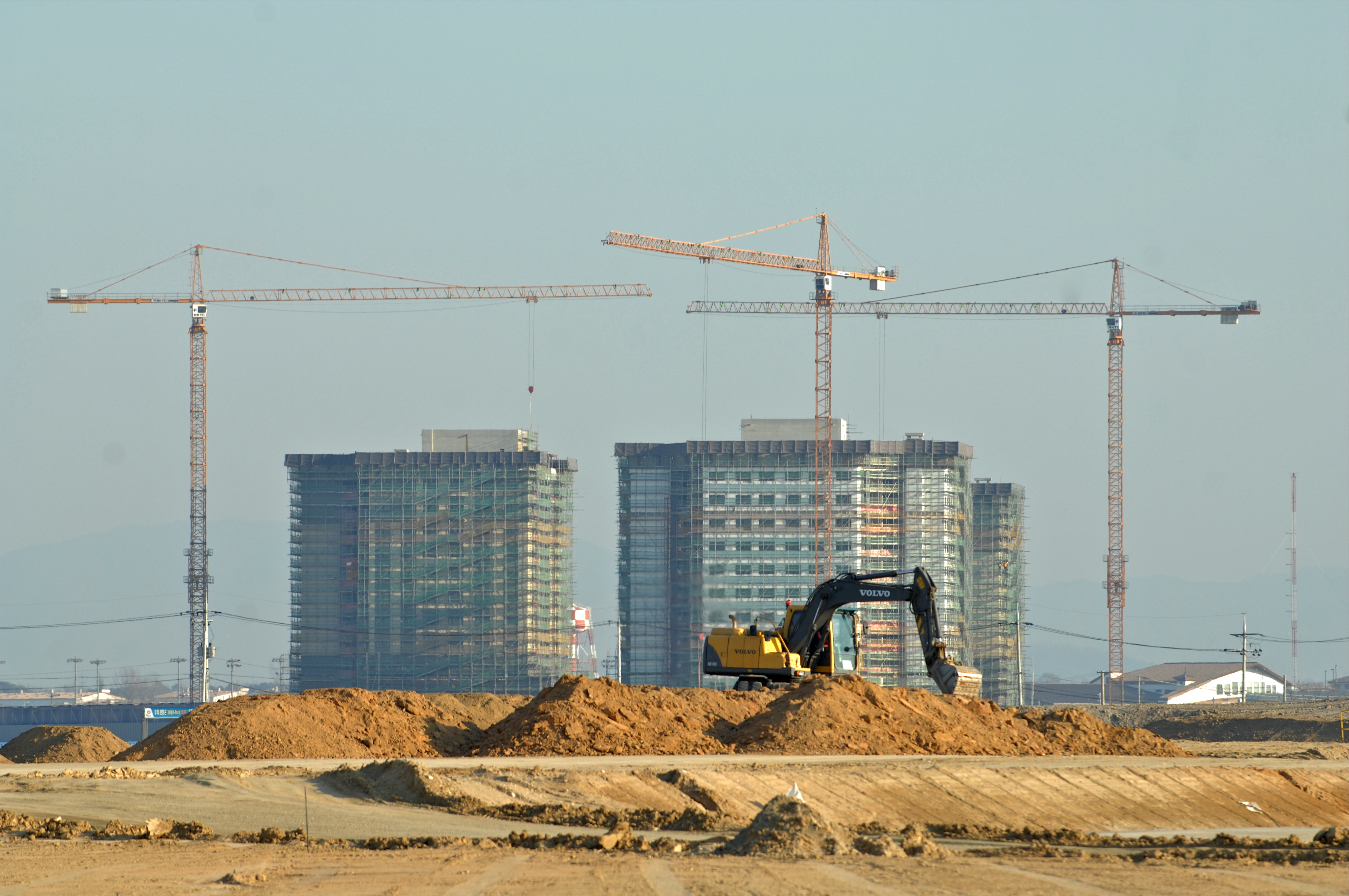 Construction of three family housing towers on Camp Humphreys. U.S. Army Garrison Humphreys official image archive